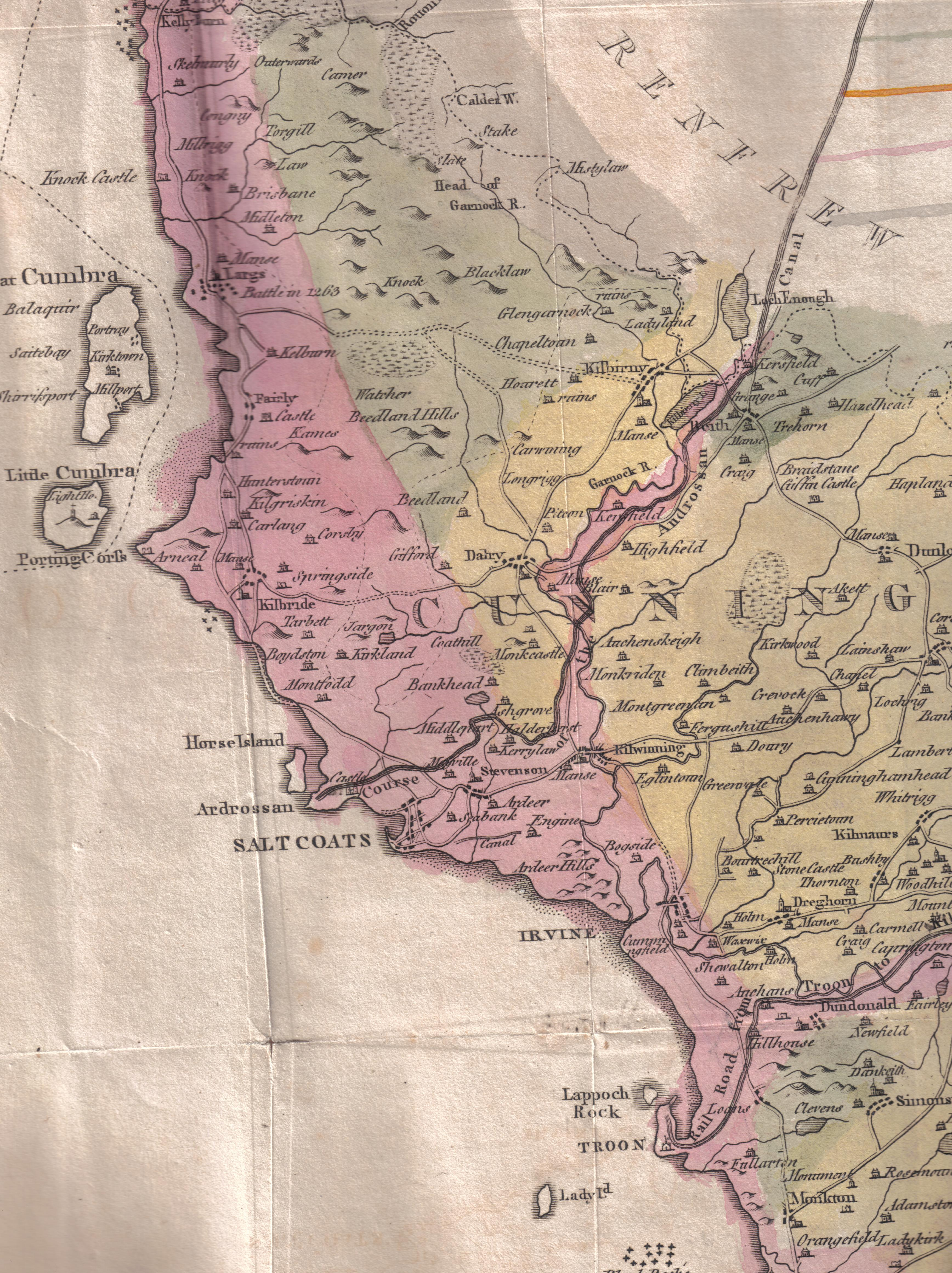 A map showing Monkcastle and Northern Ayrshire, Scotland